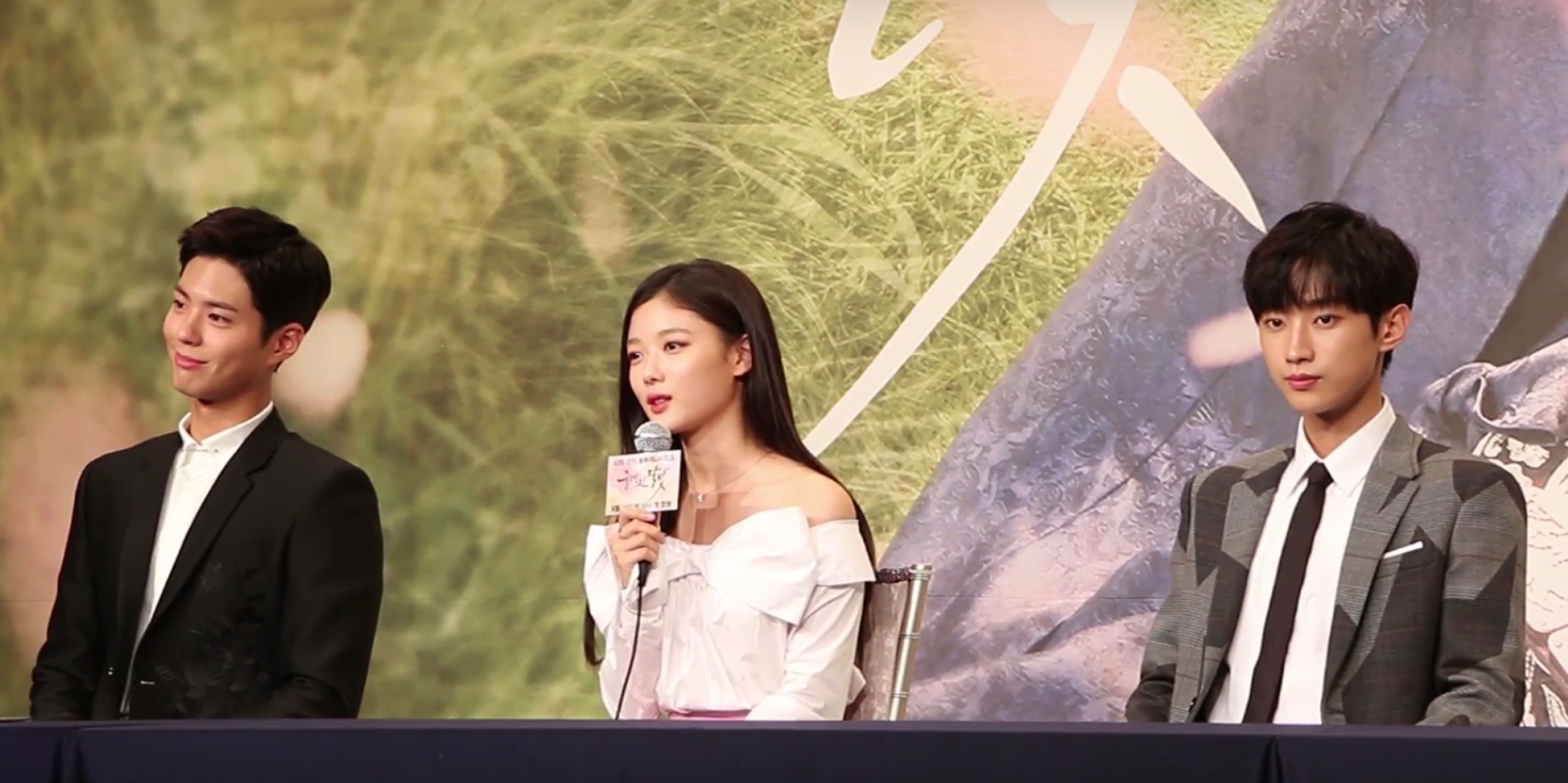 Cast of Love in the Moonlight at Press Conference on August 18, 2016.